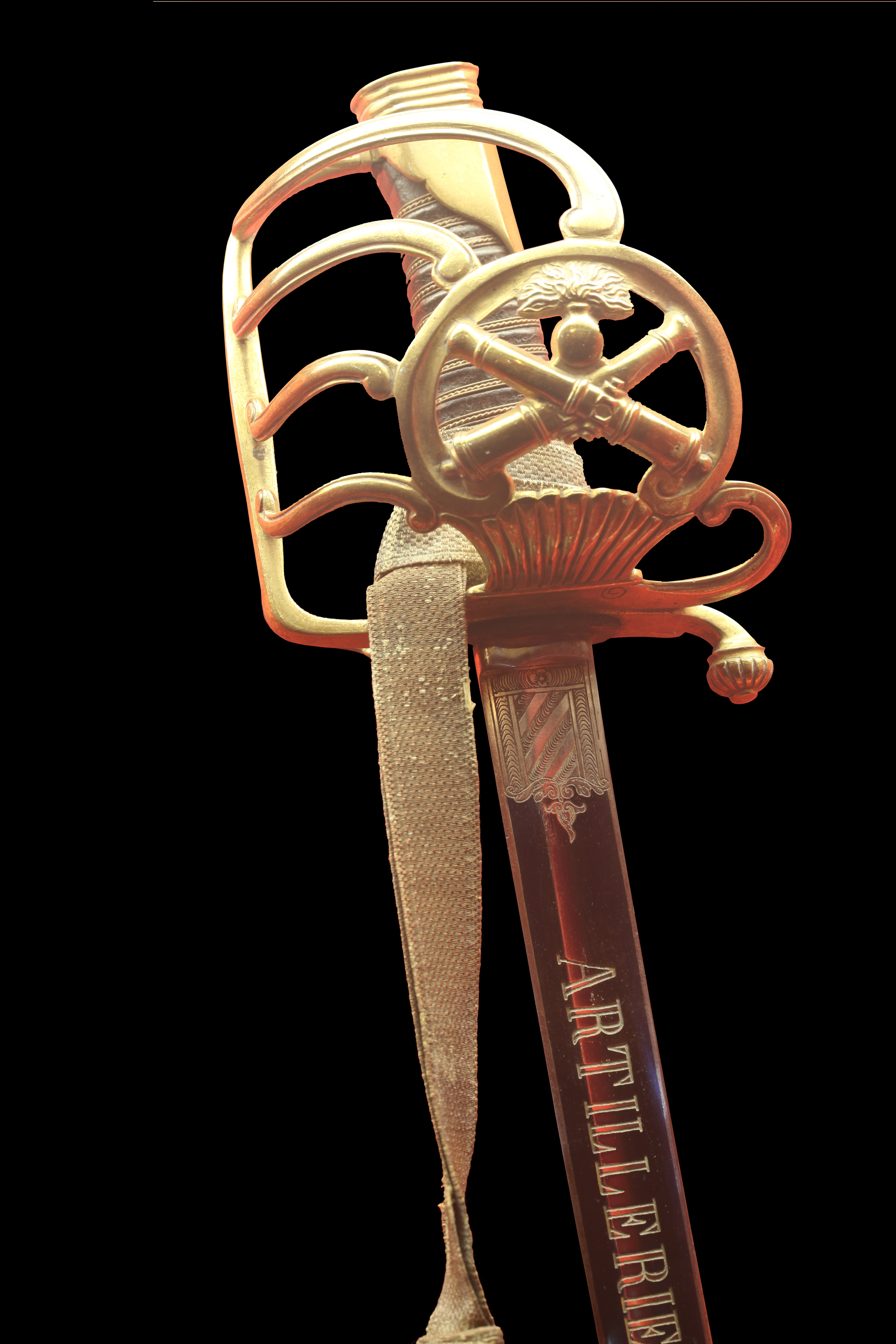 Sabre of the mounted artillery of the Imperial Guard. On display at Neuchâtel Arts and History museum.